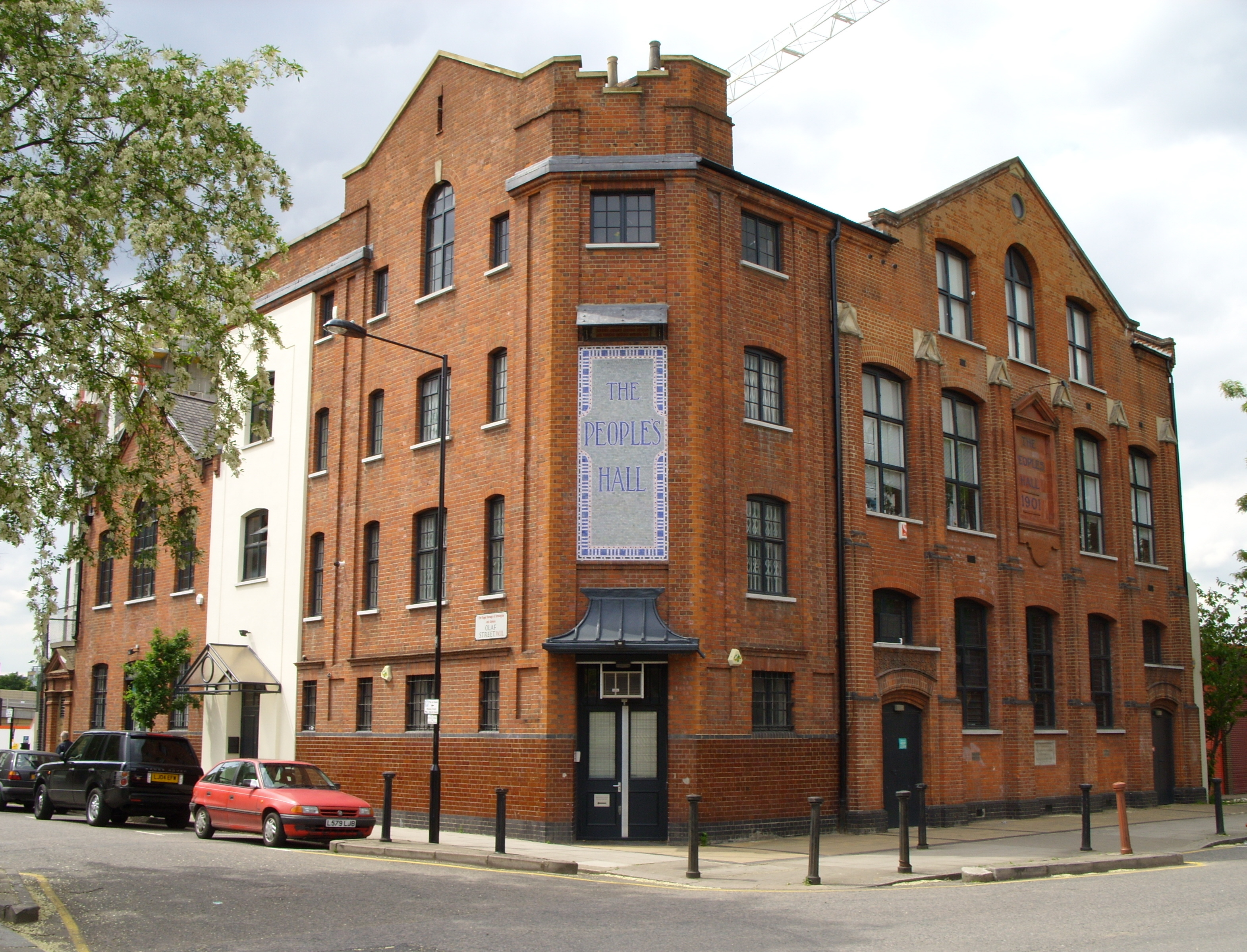 The People's Hall, Freston Road, London ("Frestonia"), aka Ear Studios